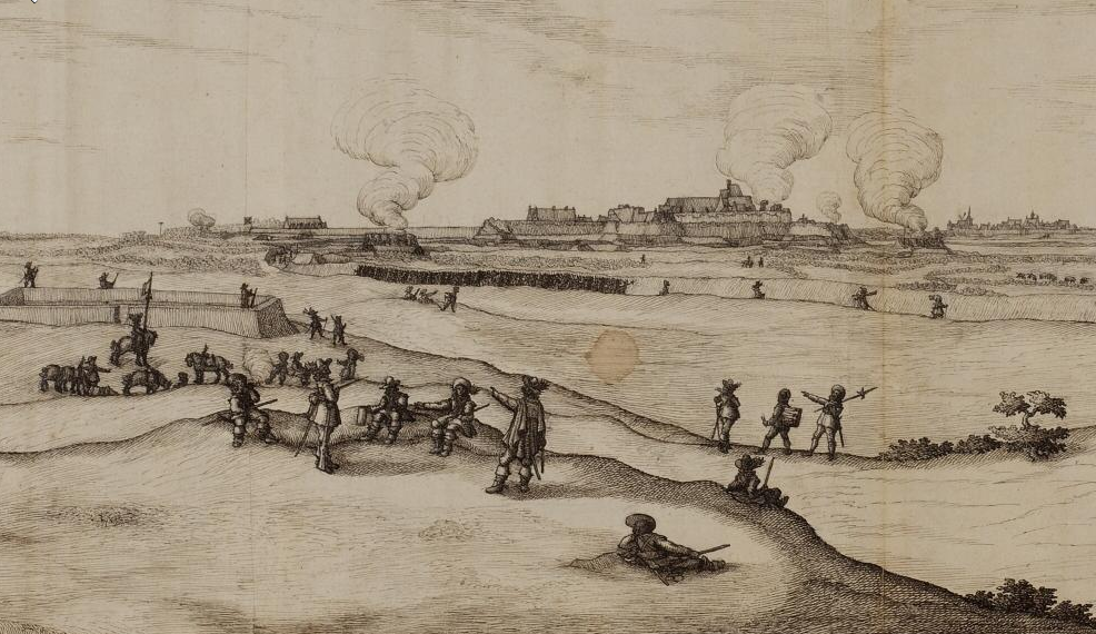 Siege of the Genneperhouse in 1641 (Netherlands)